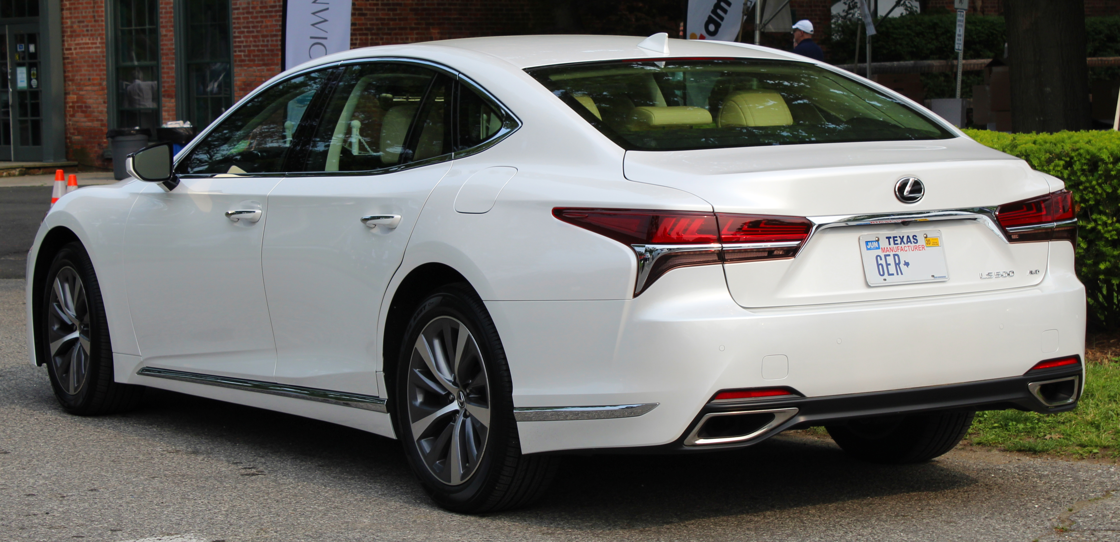 A 2019 Lexus LS 500 test driving photographed in Greenwich Concours d'Elégance Hagerty parking lot, Connecticut, USA. JTHC51FF0K5005705